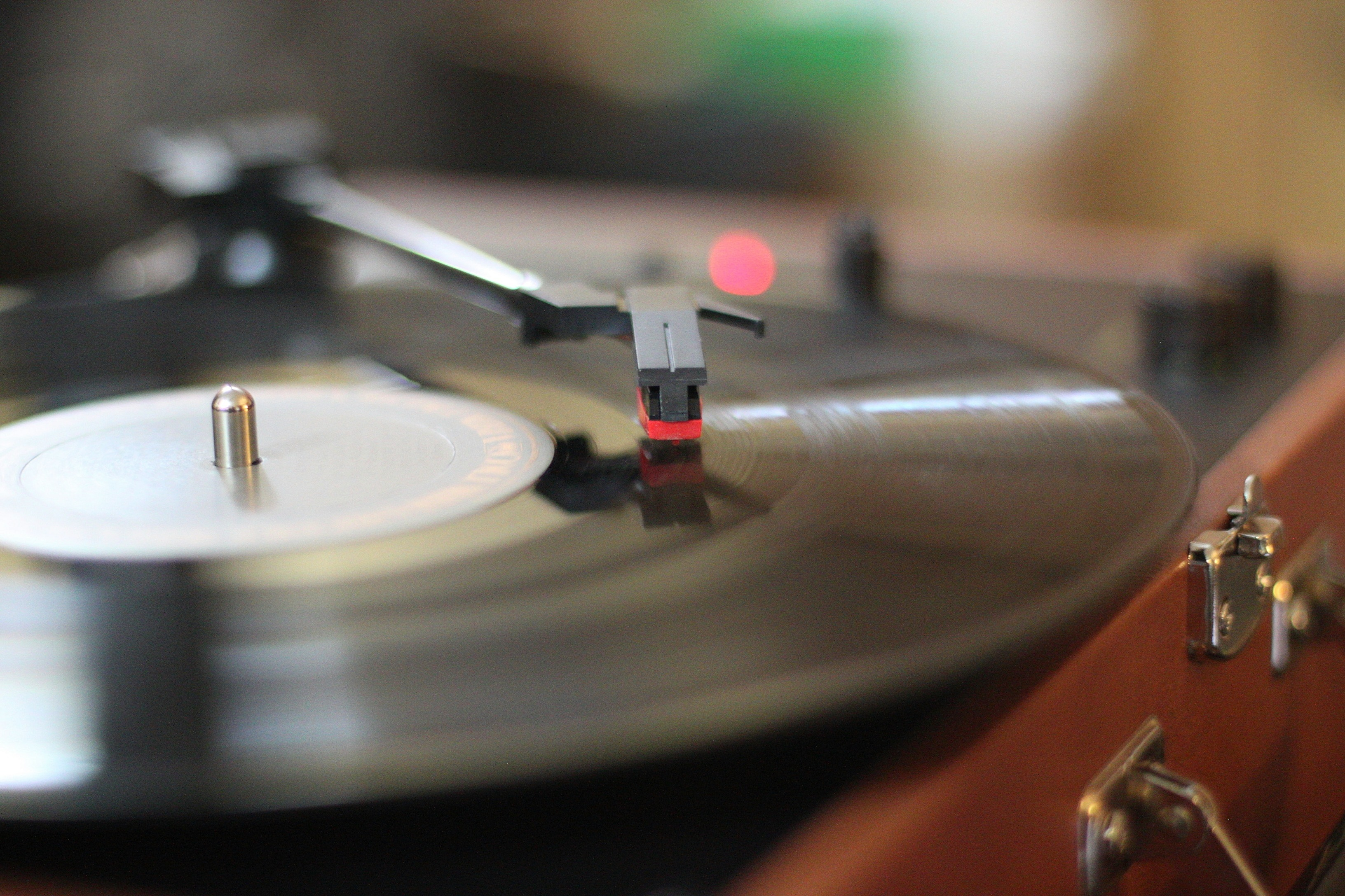 Original description: I love the tactile process of playing LPs. When I settle down I need a grown ups turntable.Comment: This is a cheap Chinese suitcase-style player (such as sold under Victrola, Crosley, and many other brands). A step-up in quality is a must, indeed.